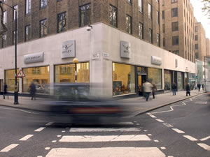 SHowroom of the J Barclay Bentley showroom in Berkeley Square, London.